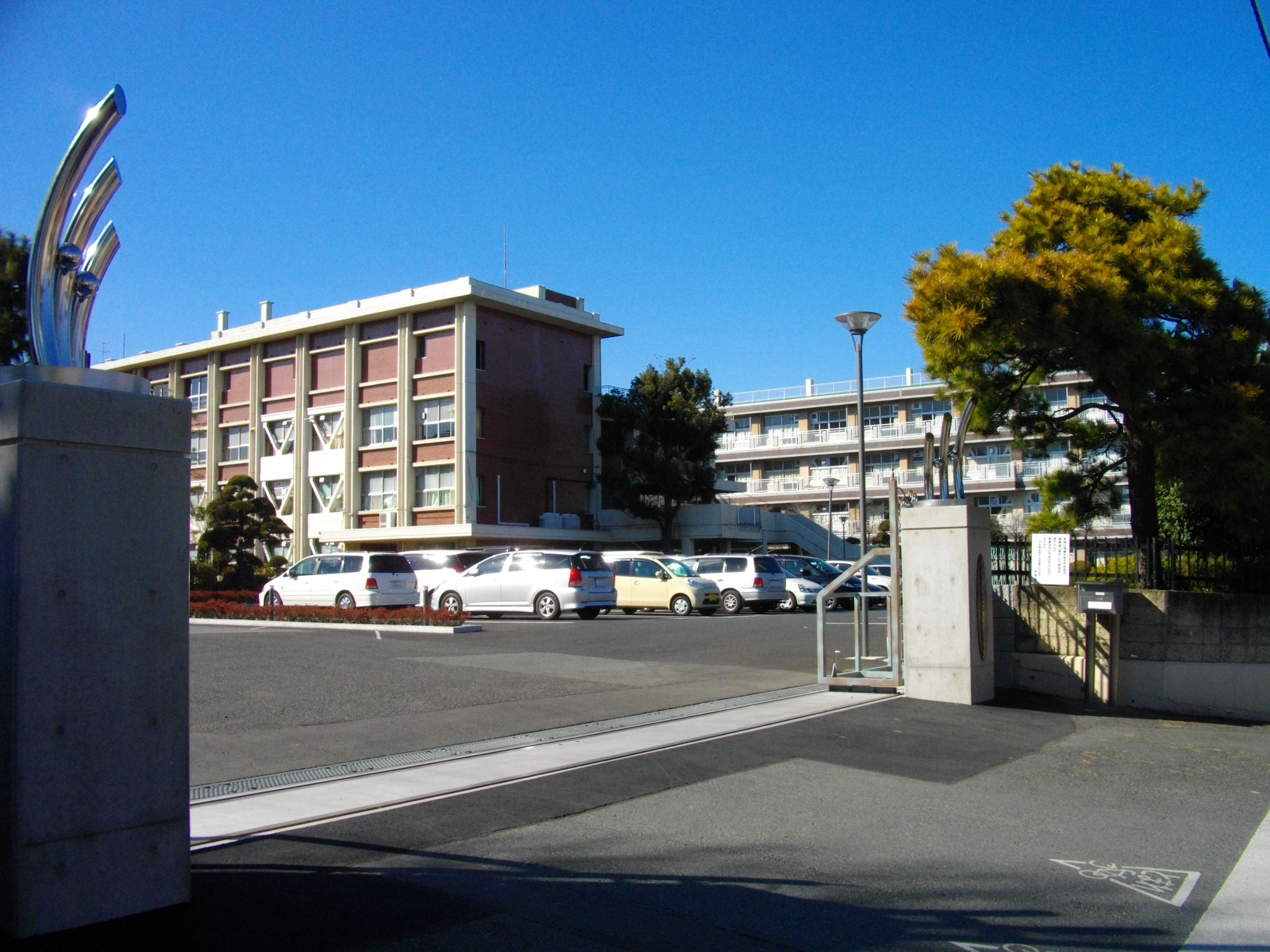 Saitama Municipal Omiya-Nishi High School